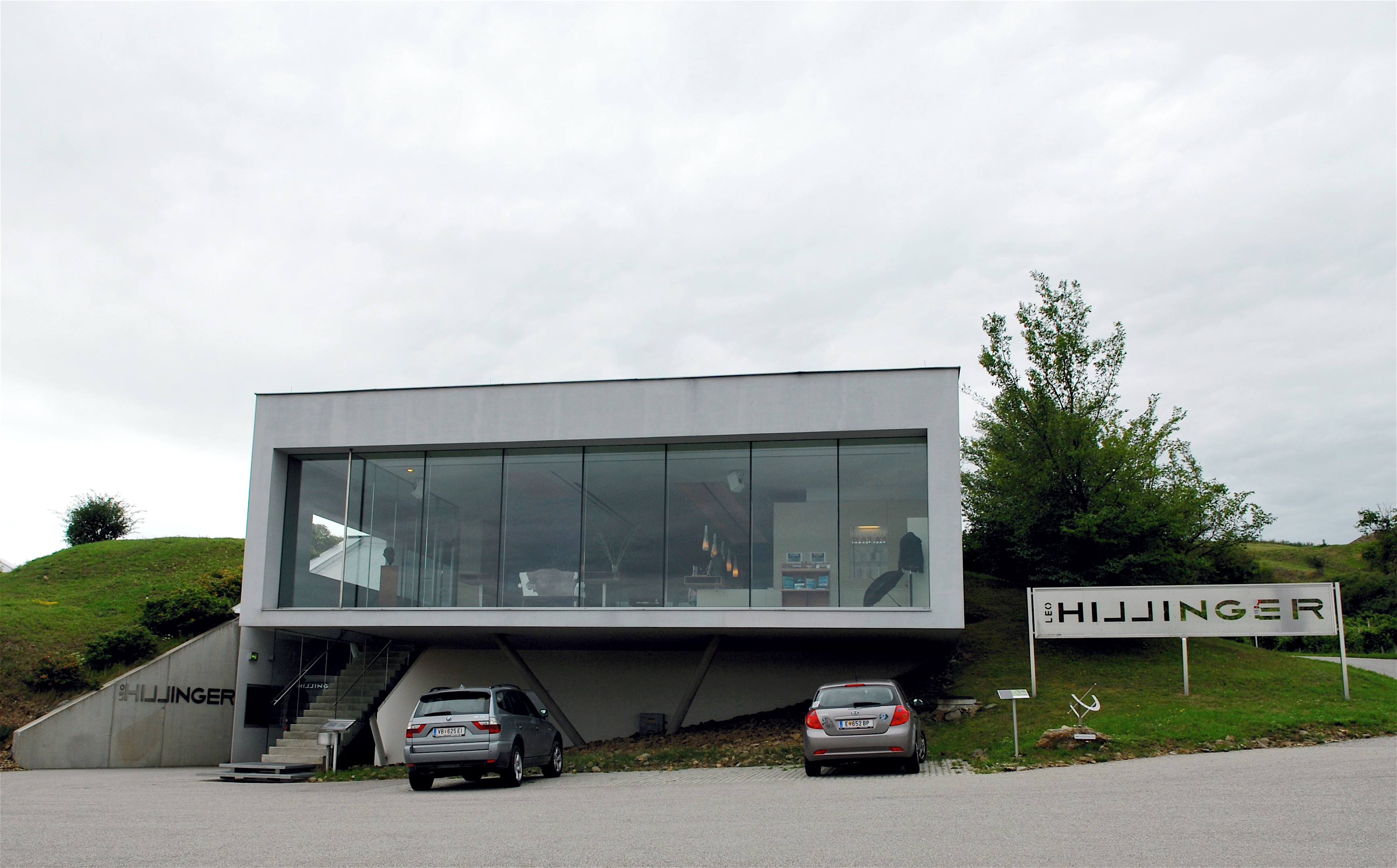 Weingut Hillinger, Jois, 2012